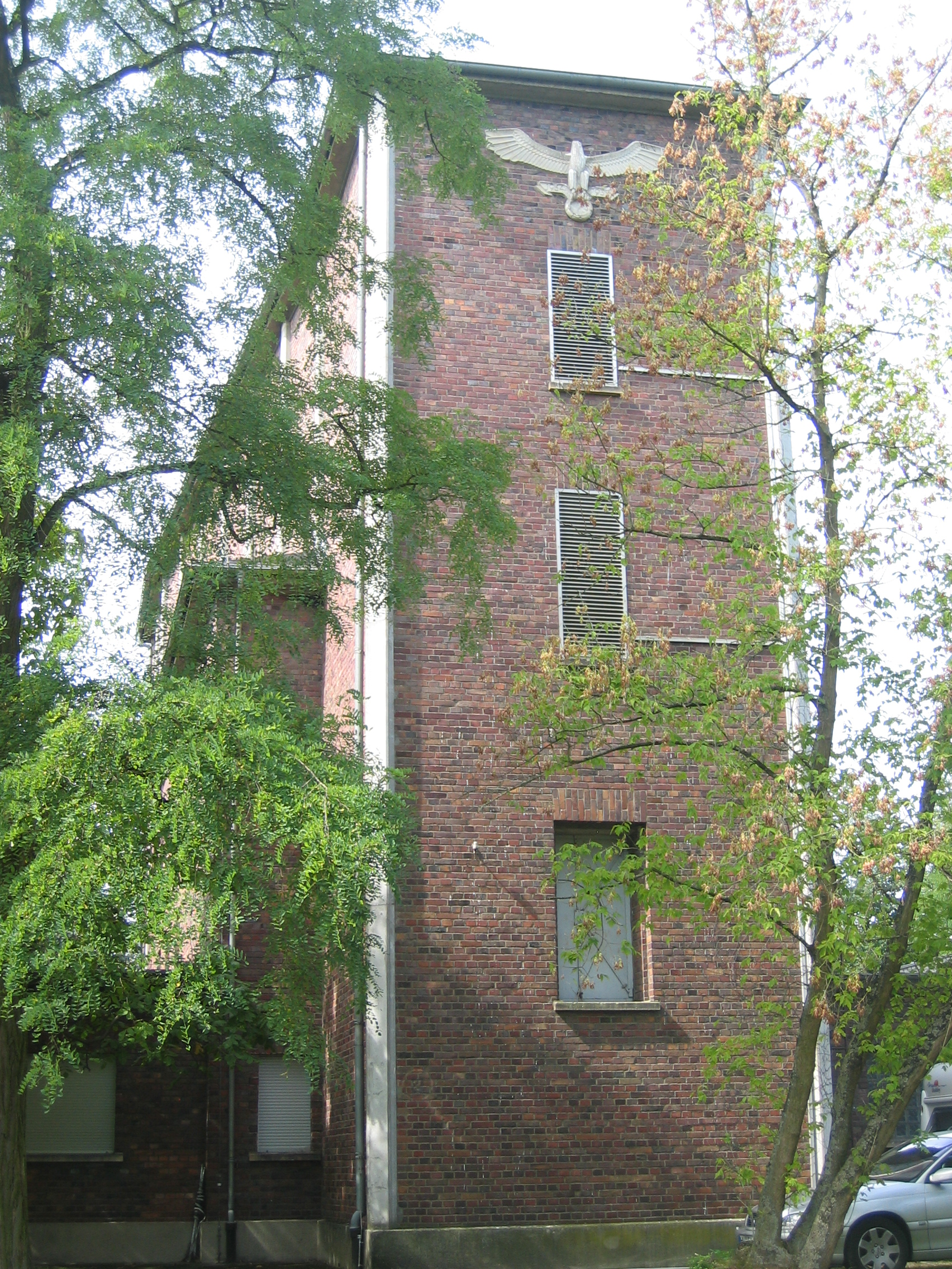 Wind tunnel TU Darmstadt in Griesheim, Germany